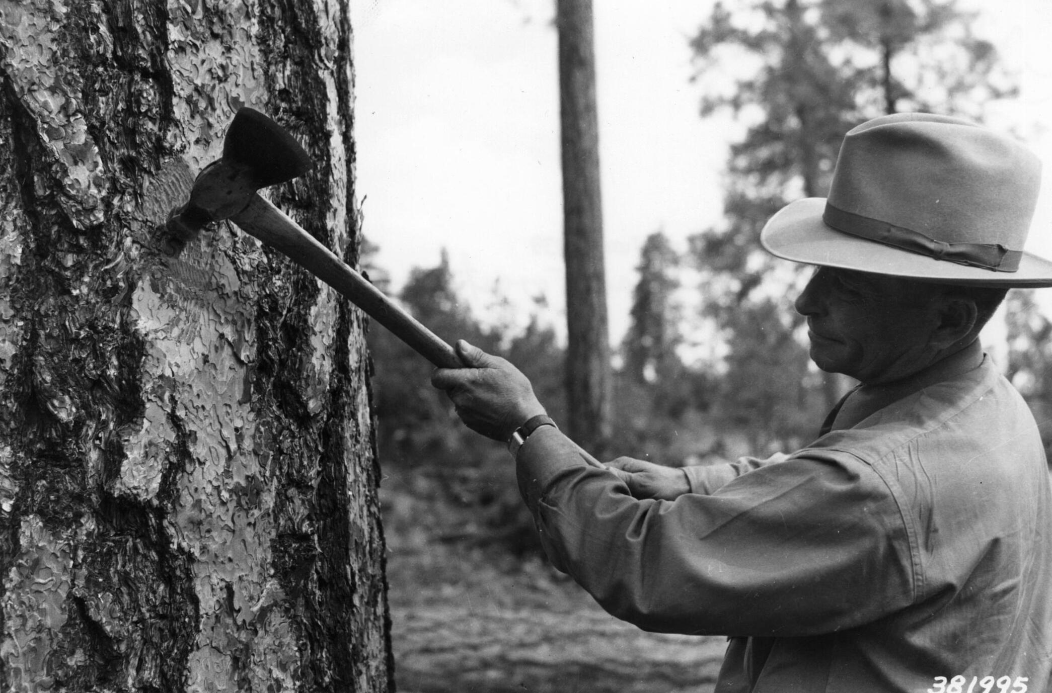 This ranger removed some bark with the cutting edge of his hatchet and then stamped "US" with the other side to mark the tree. Photo taken in 1939 by W. H. Shaffer. Credit: USDA Forest Service, Coconino National Forest